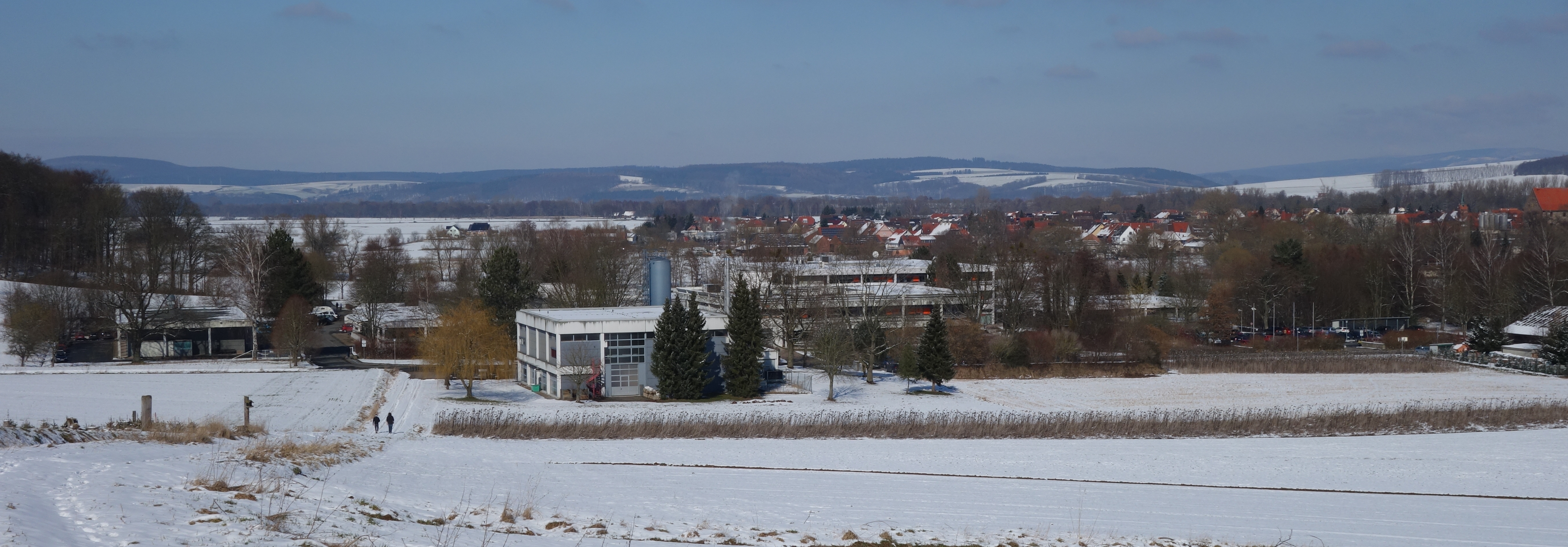 Max Planck Institute for Solarsystem Research in winter 2013